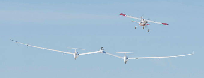 The first demonstration flight of NASA's Towed Glider Air-Launch System (one-third scale), in development by NASA Armstrong Flight Research Center.